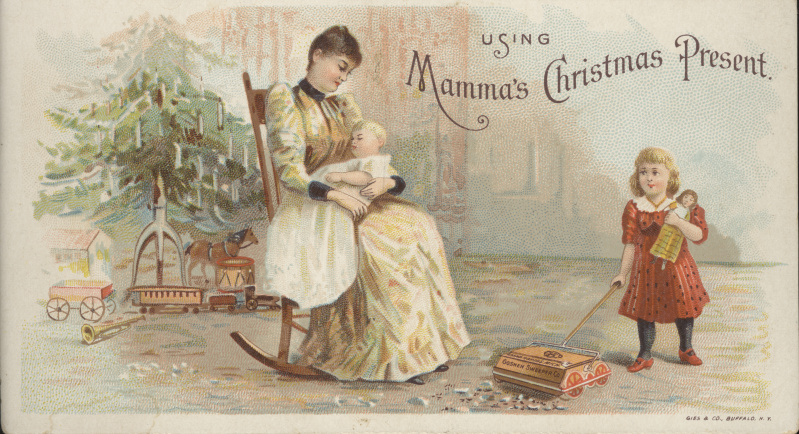 Persistent URL: Subject (TGM): Women; Infants; Children; Girls; Sweeping & dusting; Christmas decorations; Christmas presents; Christmas trees; Toys; Rocking chairs; Dolls; Domestic life; Home furnishings stores; Brooms & brushes; Appliances; Message: Keywords